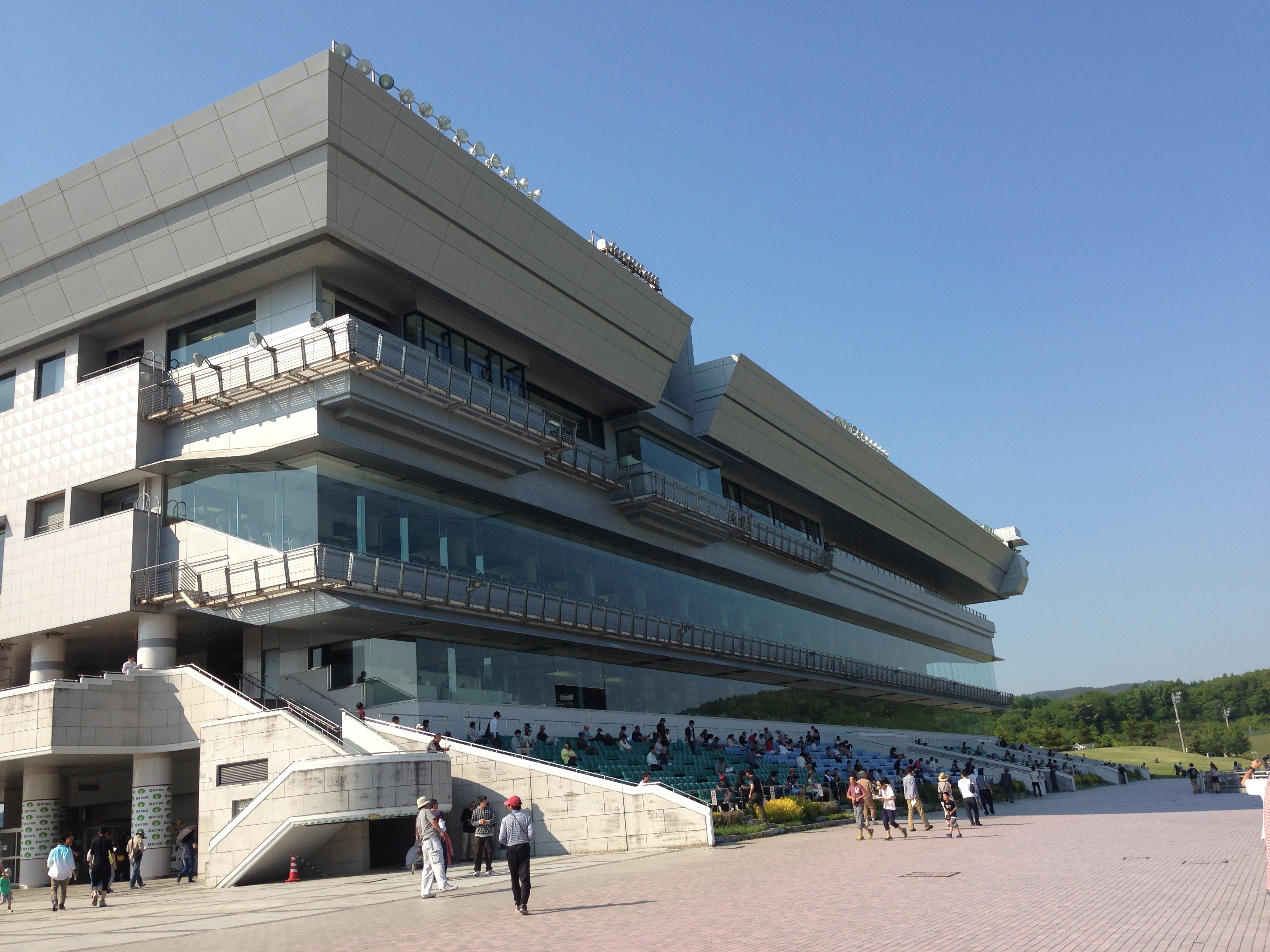 morioka racecourse